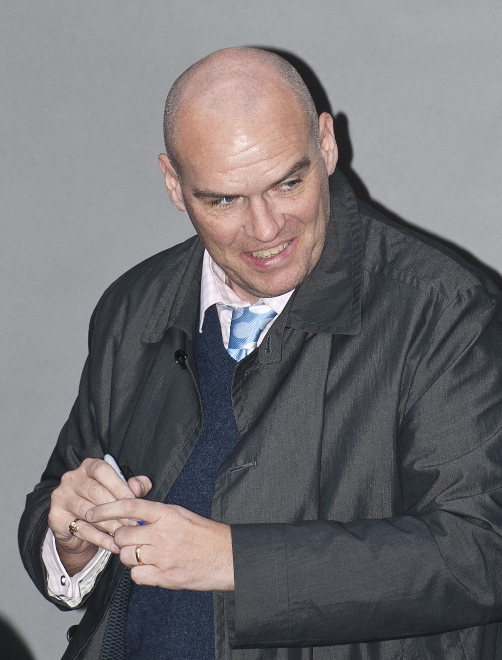 Director John Michael McDonagh arriving for the press conference for his film "The Guard" at the Berlinale 2011